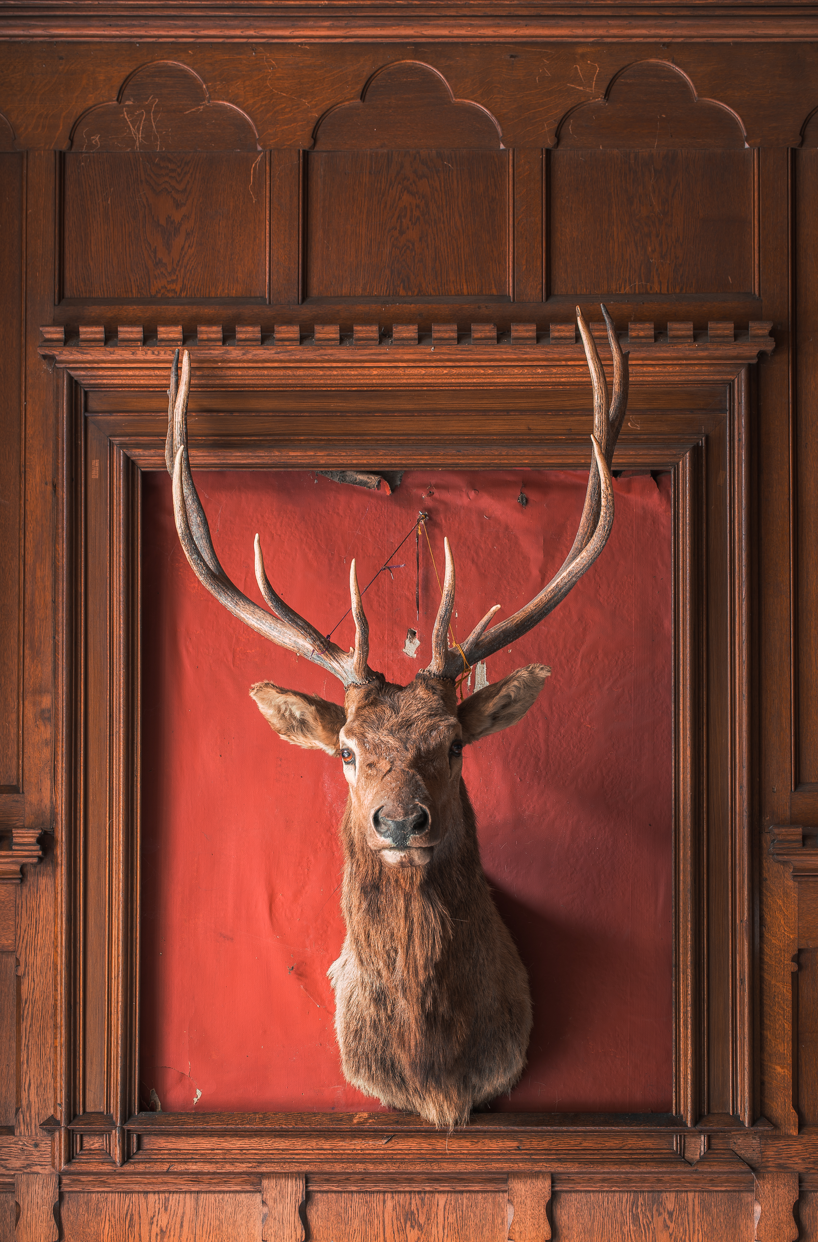 Framed mounted stag head (10 pointer) on red ground at Rothestein Castle, Hesse, Germany.